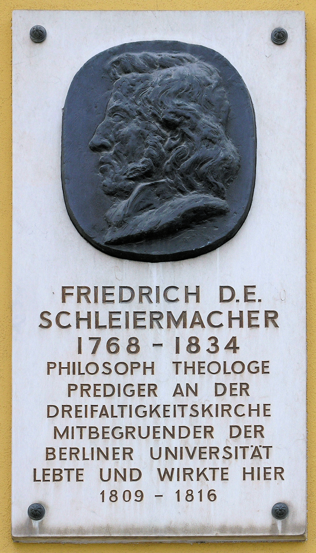 Memorial plaque, Friedrich Schleiermacher, Glinkastraße 16, Berlin-Mitte, Germany Koordinate:52°30′45″N 13°23′11.6″E / 52.5125°N 13.386556°E